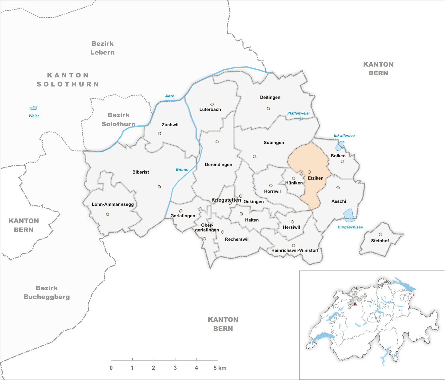 Municipality Etziken